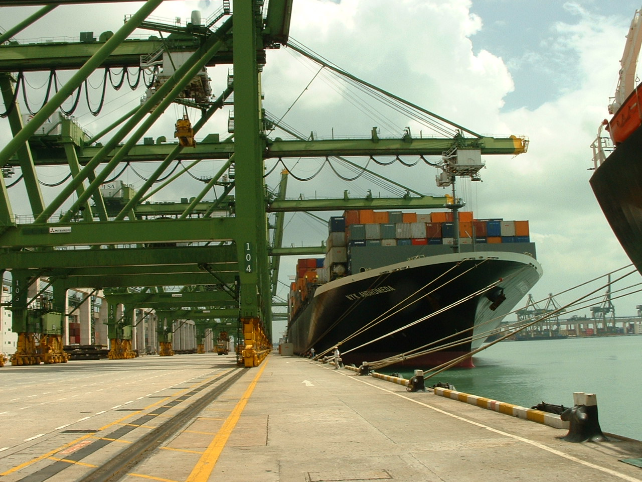 The NYK ANDROMEDA IMO Number: 9162497 MMSI Number: 351916000 Callsign: 3FBR8 Length: 300 m Beam: 40 m Photo taken by Lukacs in 2005.